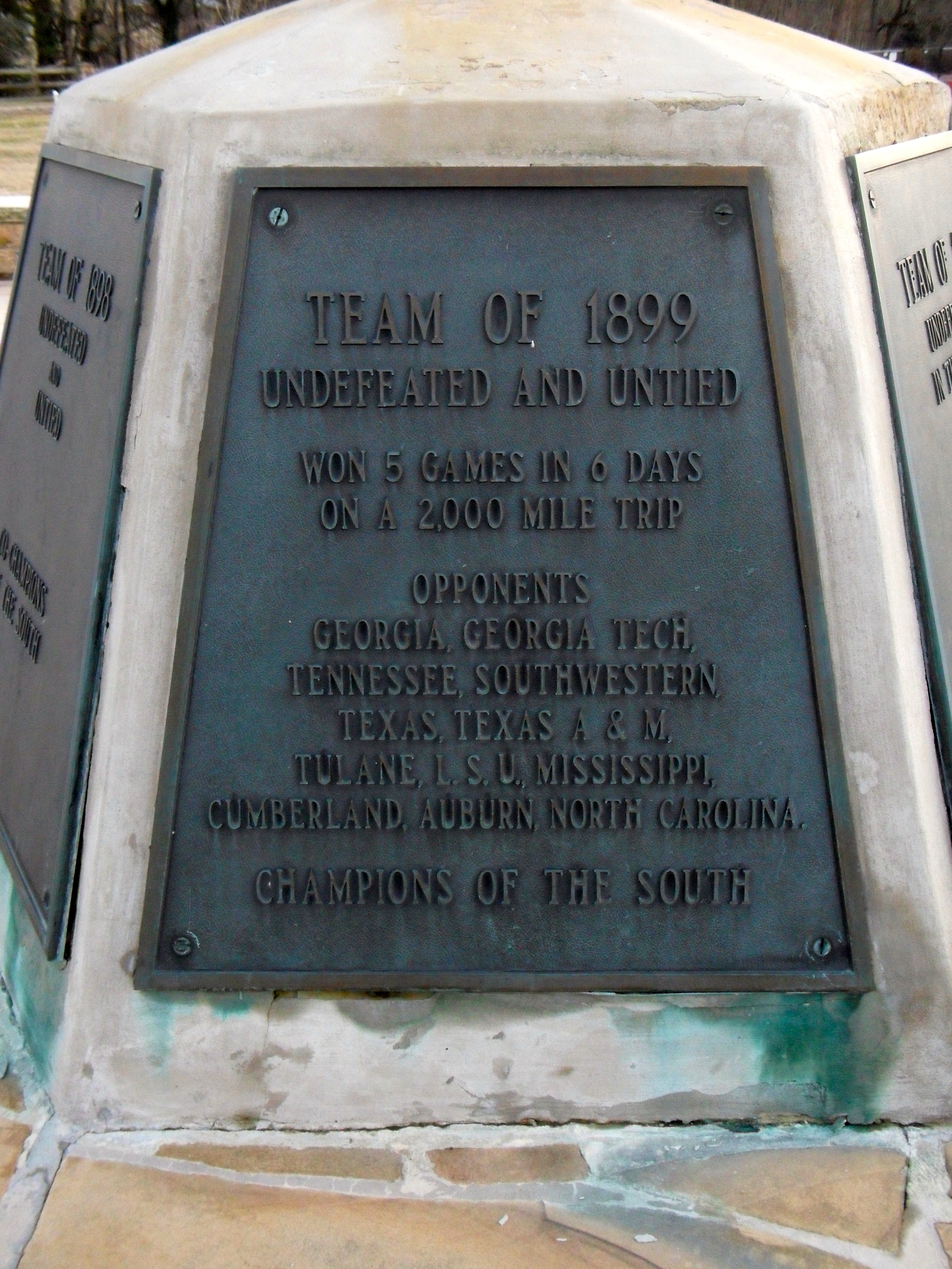 Plaque on the base of flagpole at the University of the South (Sewanee) football field: "TEAM OF 1899 - UNDEFEATED AND UNTIED - WON 5 GAMES IN 6 DAYS ON A 2,000 MILE TRIP - OPPONENTS - GEORGIA, GEORGIA TECH, TENNESSEE, SOUTHWESTERN, TEXAS, TEXAS A&M, TULANE, L.S.U., MISSISSIPPI, CUMBERLAND, AUBURN, NORTH CAROLINA. - CHAMPIONS OF THE SOUTH